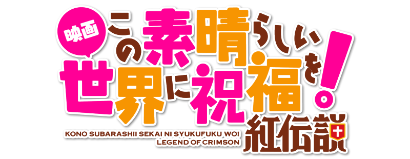 Logo of KonoSuba: God's Blessing on this Wonderful World! Legend of Crimson